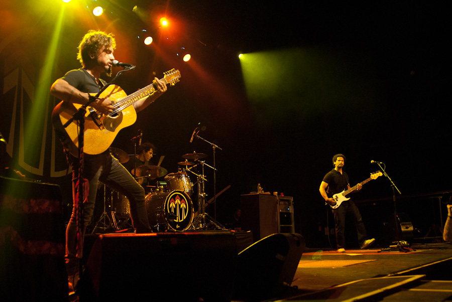 The John Butler Trio, consisting of (L-R) John Butler, Nicky Bomba, and Byron Luiters, performing in Toronto c. 2012